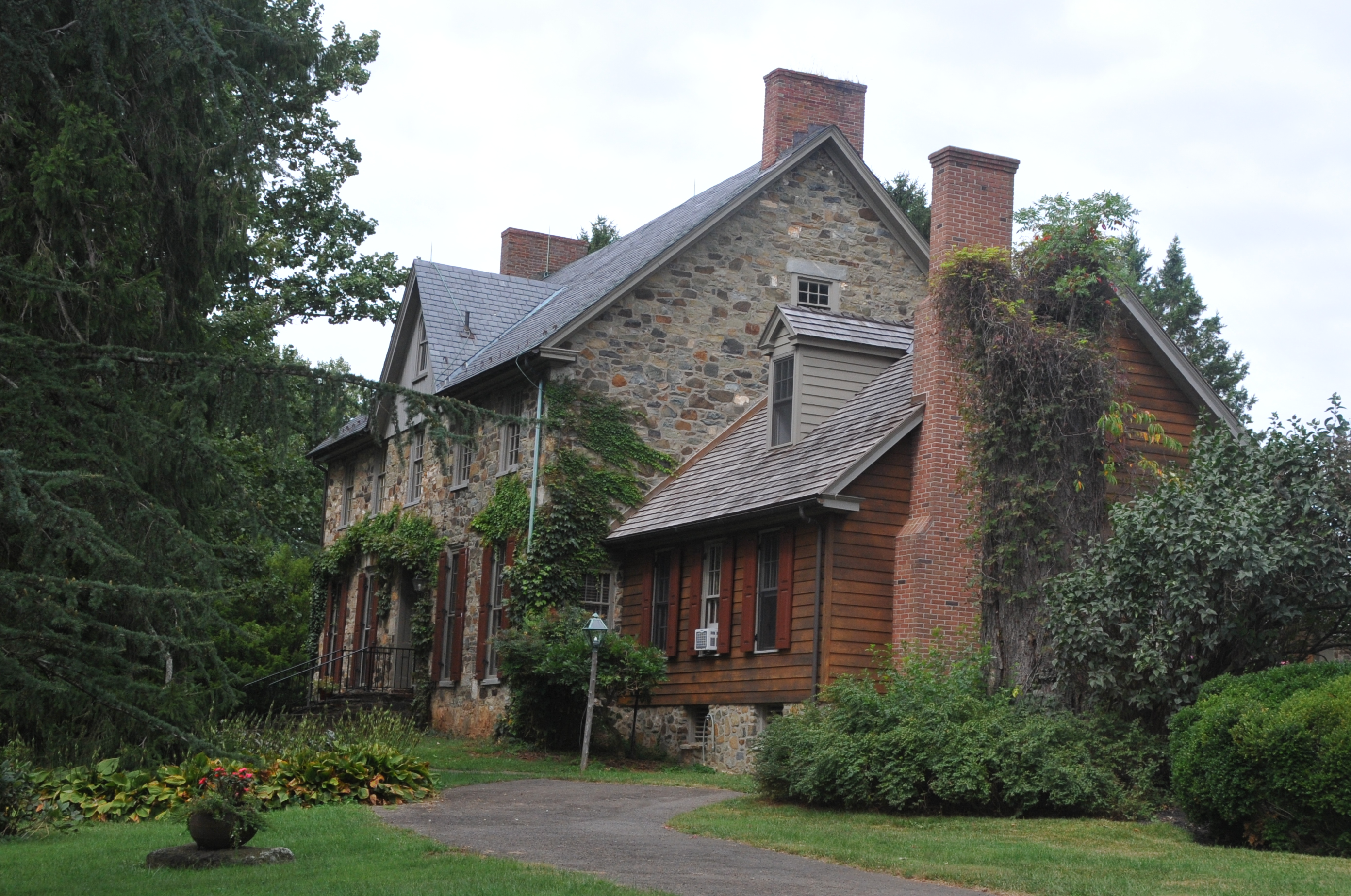 PATENTED IN 1741; THE MAIN HOUSE WAS BUILT IN 1804